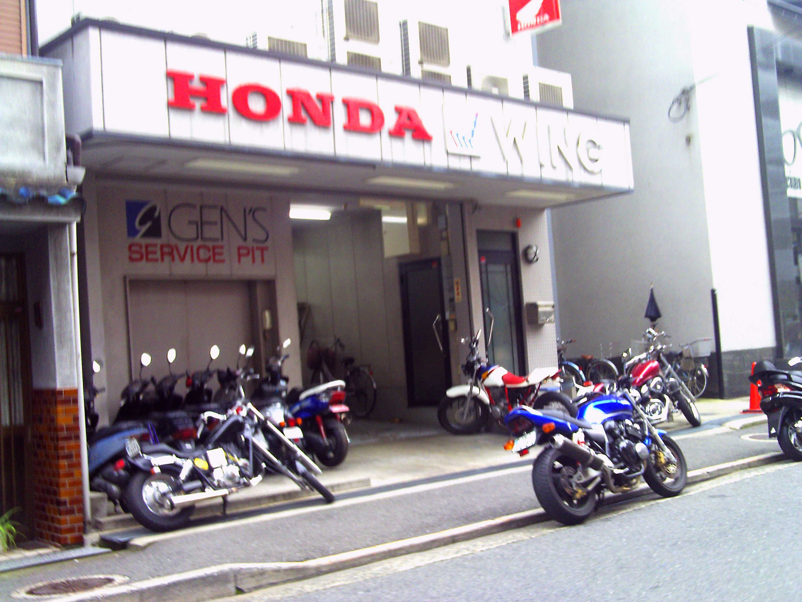 HONDA_Bike_Shop at Kawachi-Eiwa Higashi-Osaka